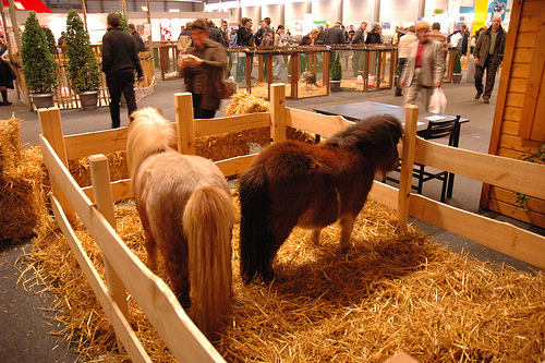 Image appears to be from an agricultural show in Belgium, here showing some ponies in the stabling area